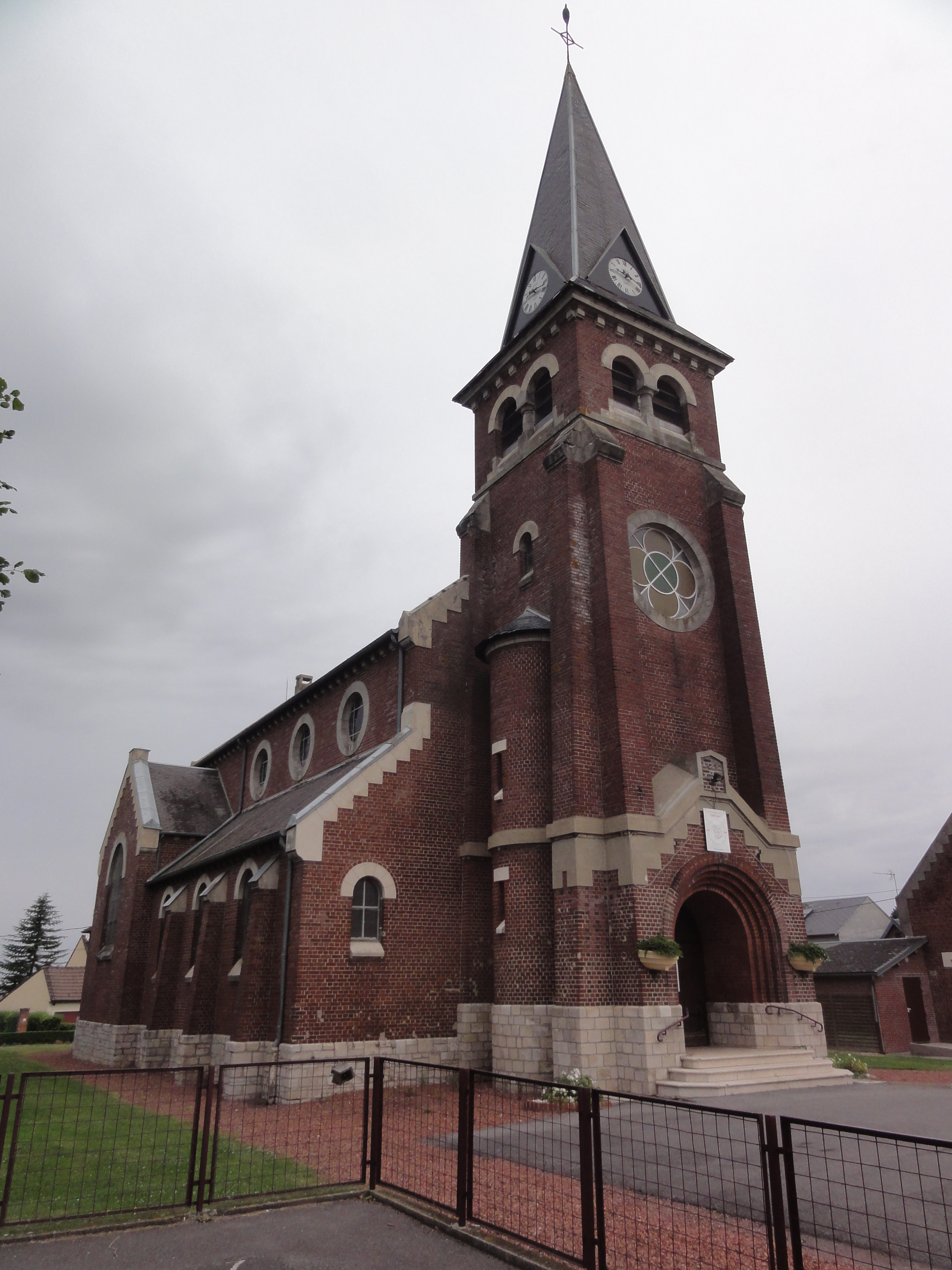 Essigny-le-Grand (Aisne) église Saint-Saulve